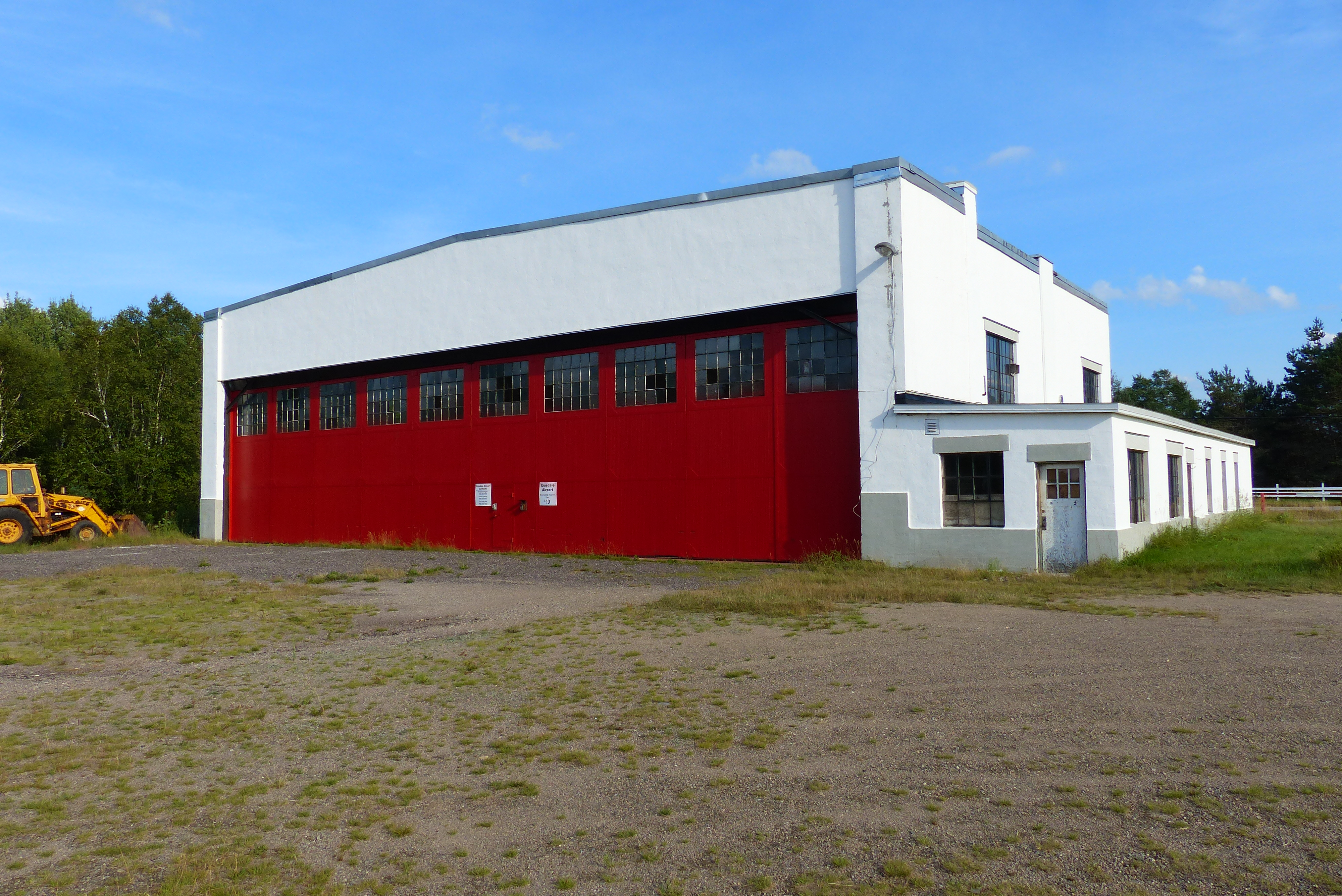 The hangar at Emsdale Airport in August 2015. The design is similar to a British Commonwealth Air Training Plan relief hangar, but much smaller. Emsdale was a relief airfield for the World War II Royal Norwegian Air Force "Little Norway" training base at Muskoka Airport.